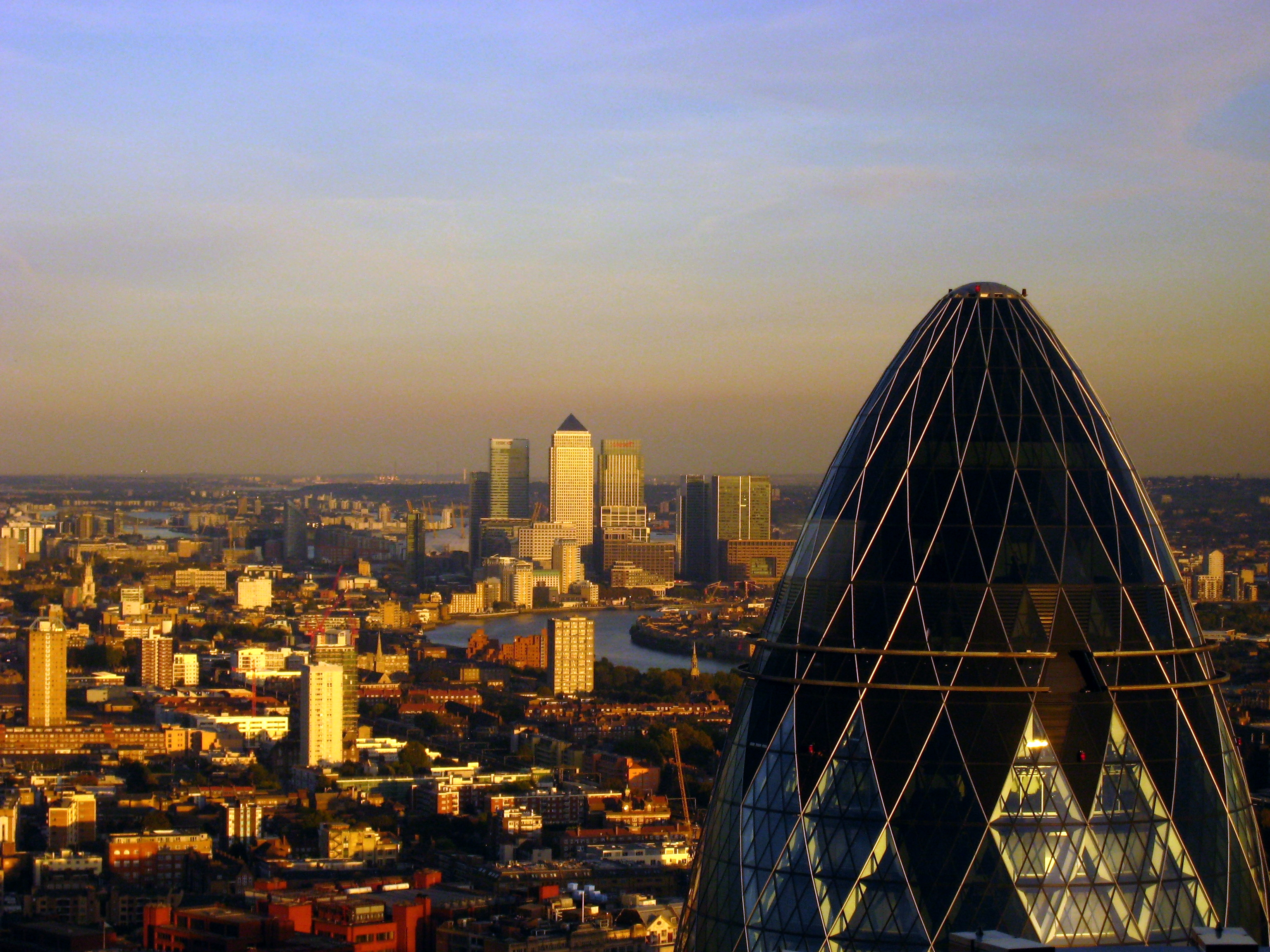 London's Canary Wharf and the Thames appear from behind 30 St Mary Axe.